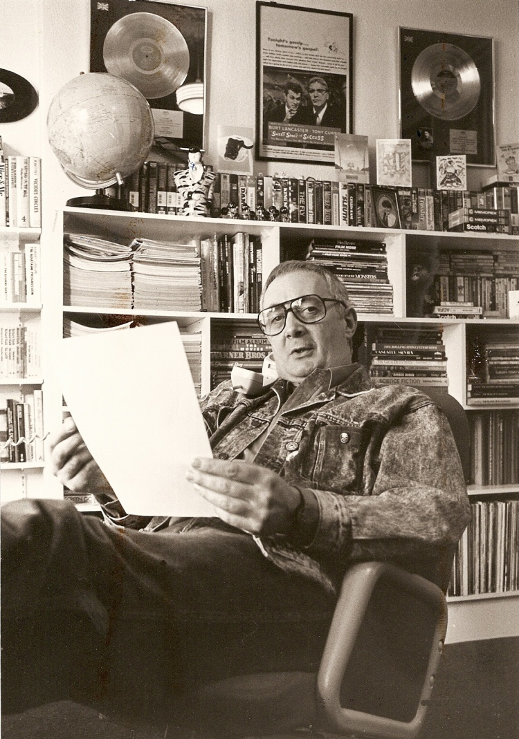 Paul Barret in his office